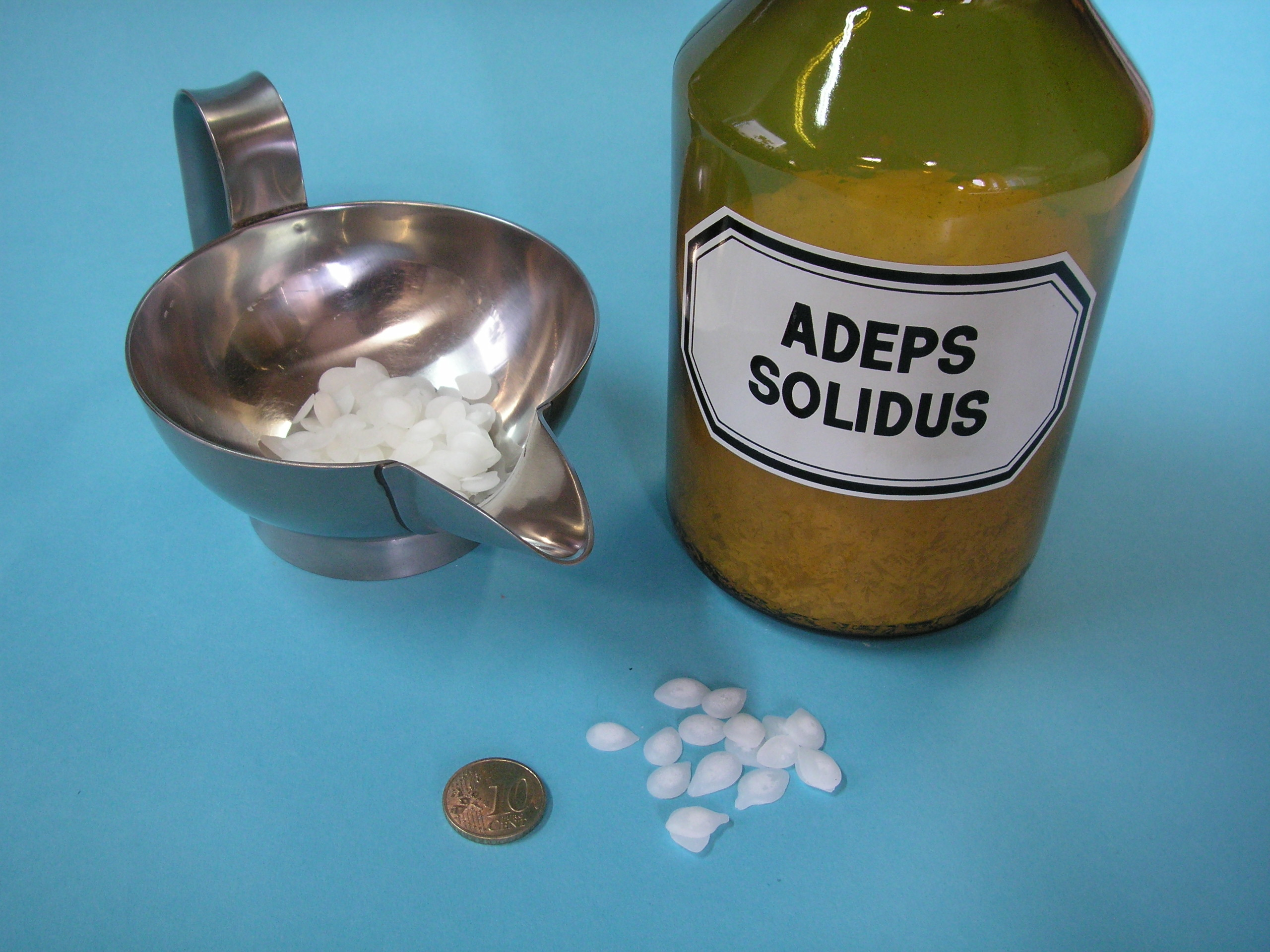 Adeps solidus (hard fat, Witepsol®) in pastilles. Used for suppositories. Showing a melting cup made of Cromargan steel on the left and a apothecary's storage bottle on the right.